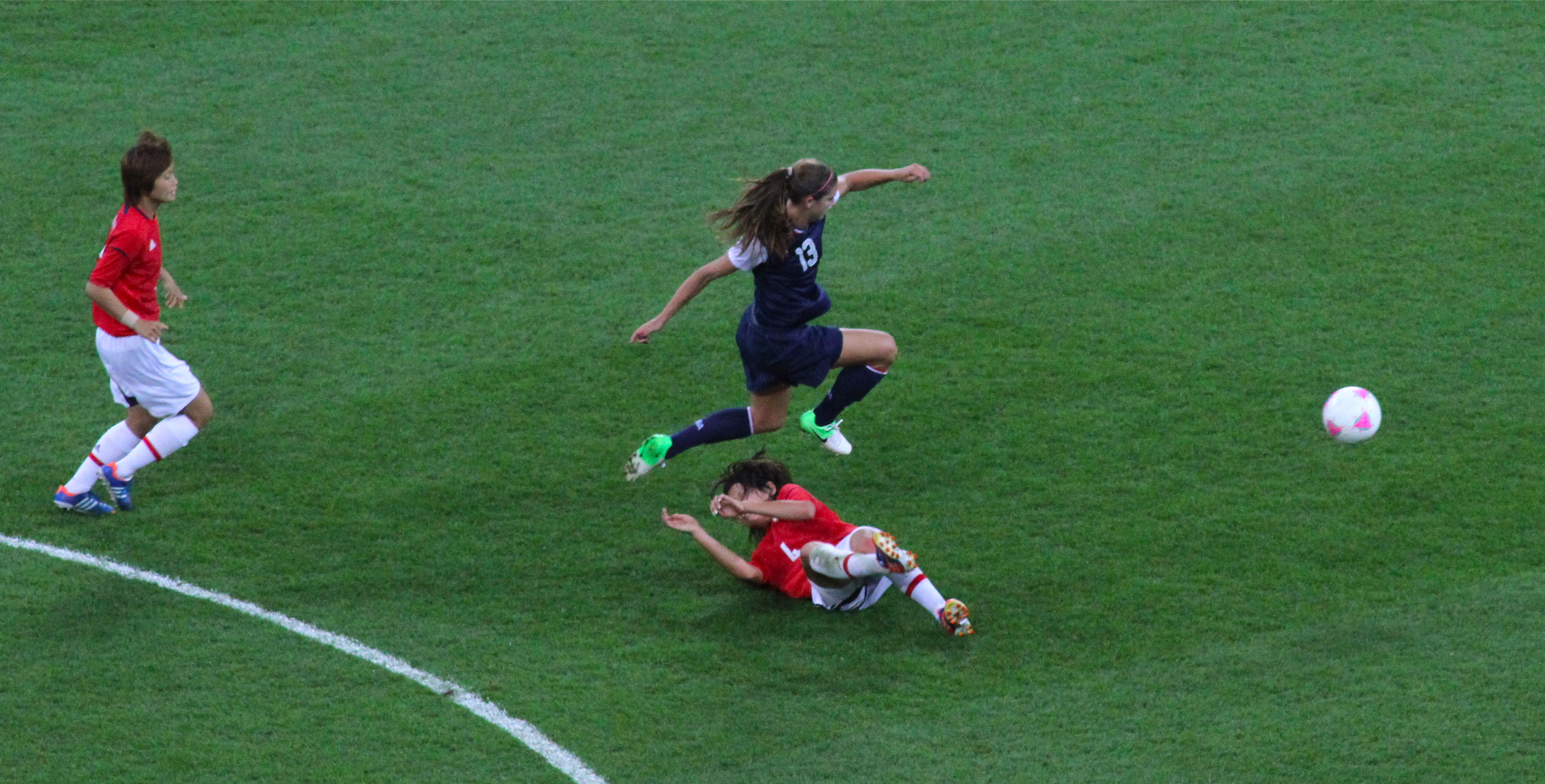 Alex Morgan of the United States (13) leaps over Japanese defender Saki Kumagai.